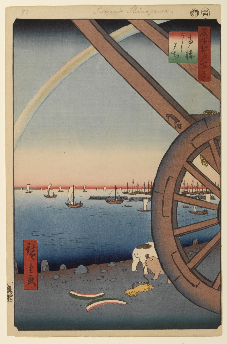 Part of the series One Hundred Famous Views of Edo, no. 081, part 3: Autumn.